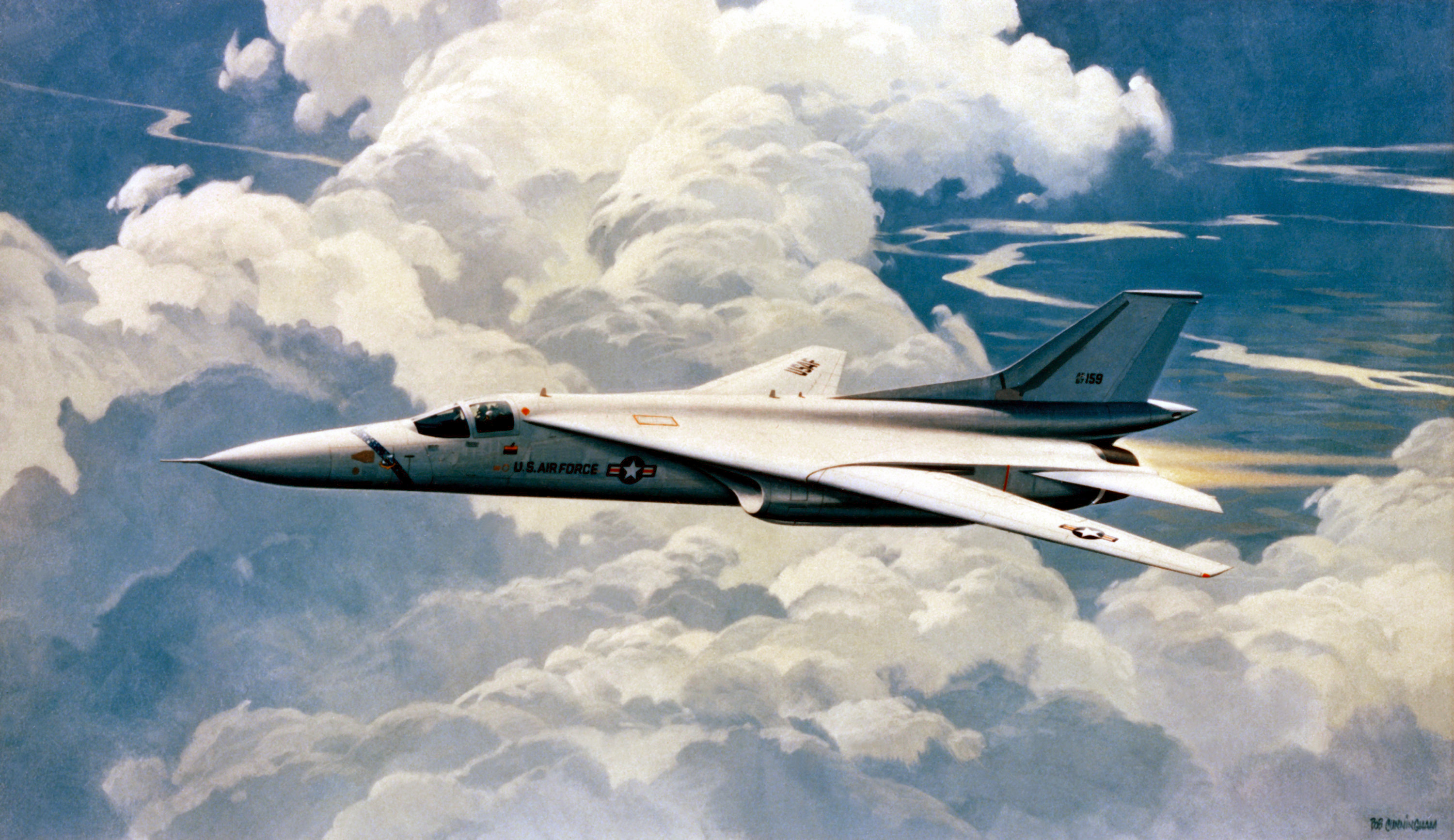 Artist's concept of a stretched F-111 aircraft.